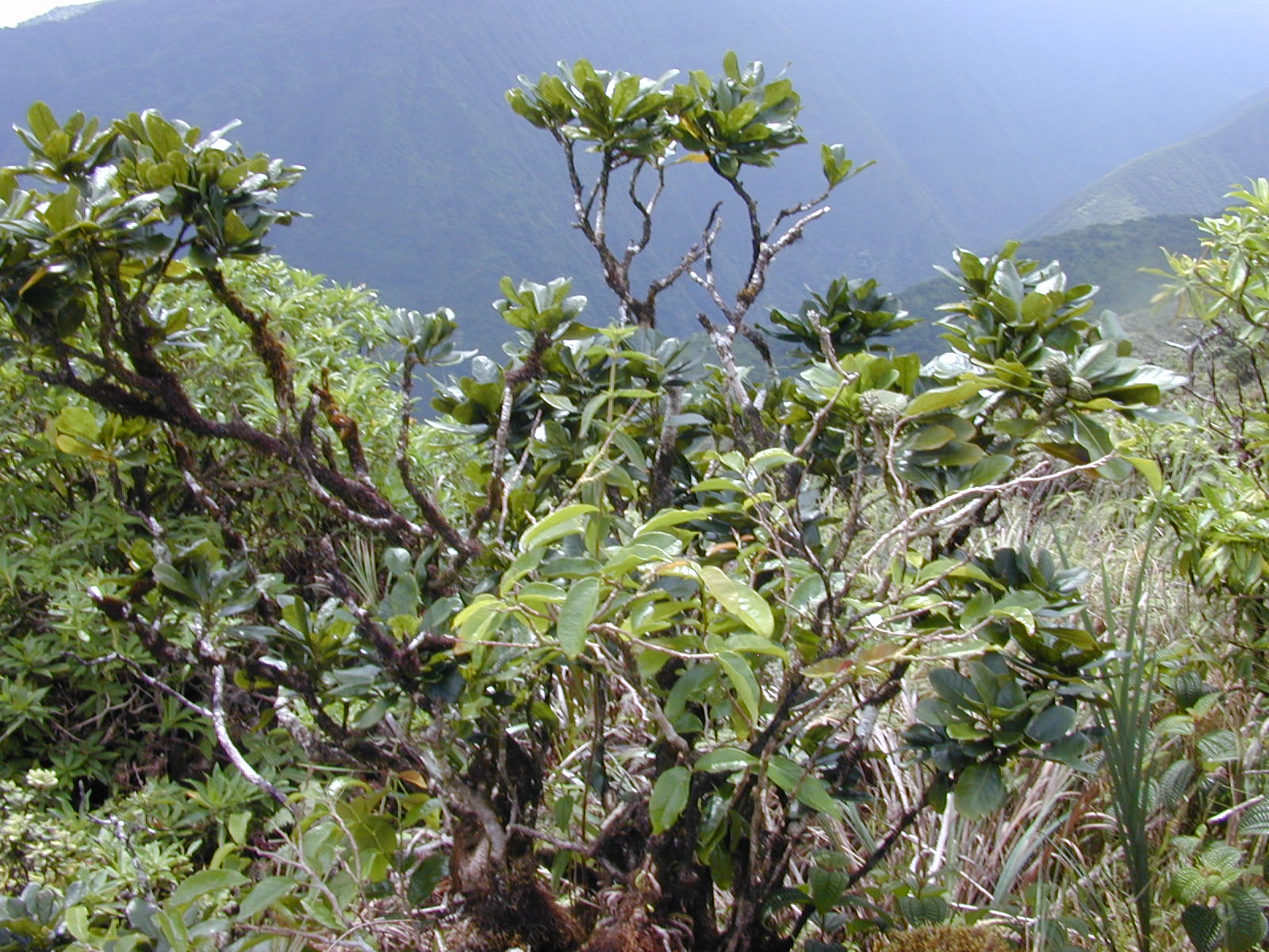 Pittosporum glabrum (habit). Location: Maui, Waihee Ridge Trail